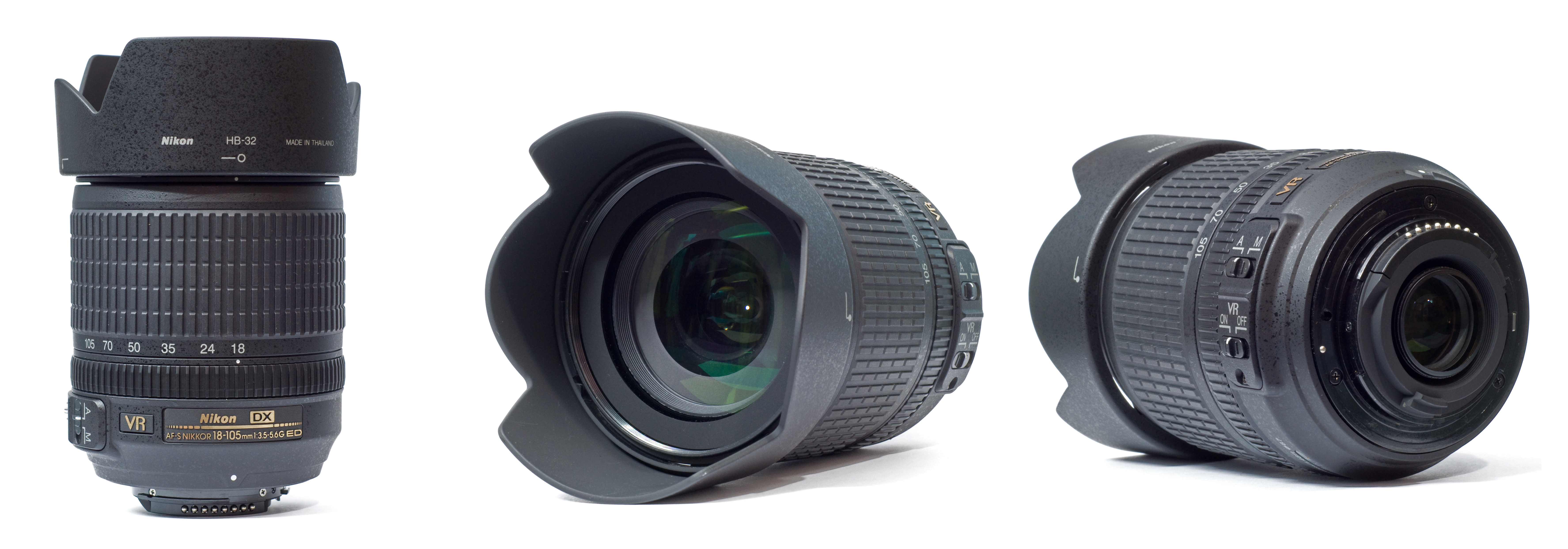 AF-S DX Nikkor 18-105mm f/3.5-5.6G ED VR